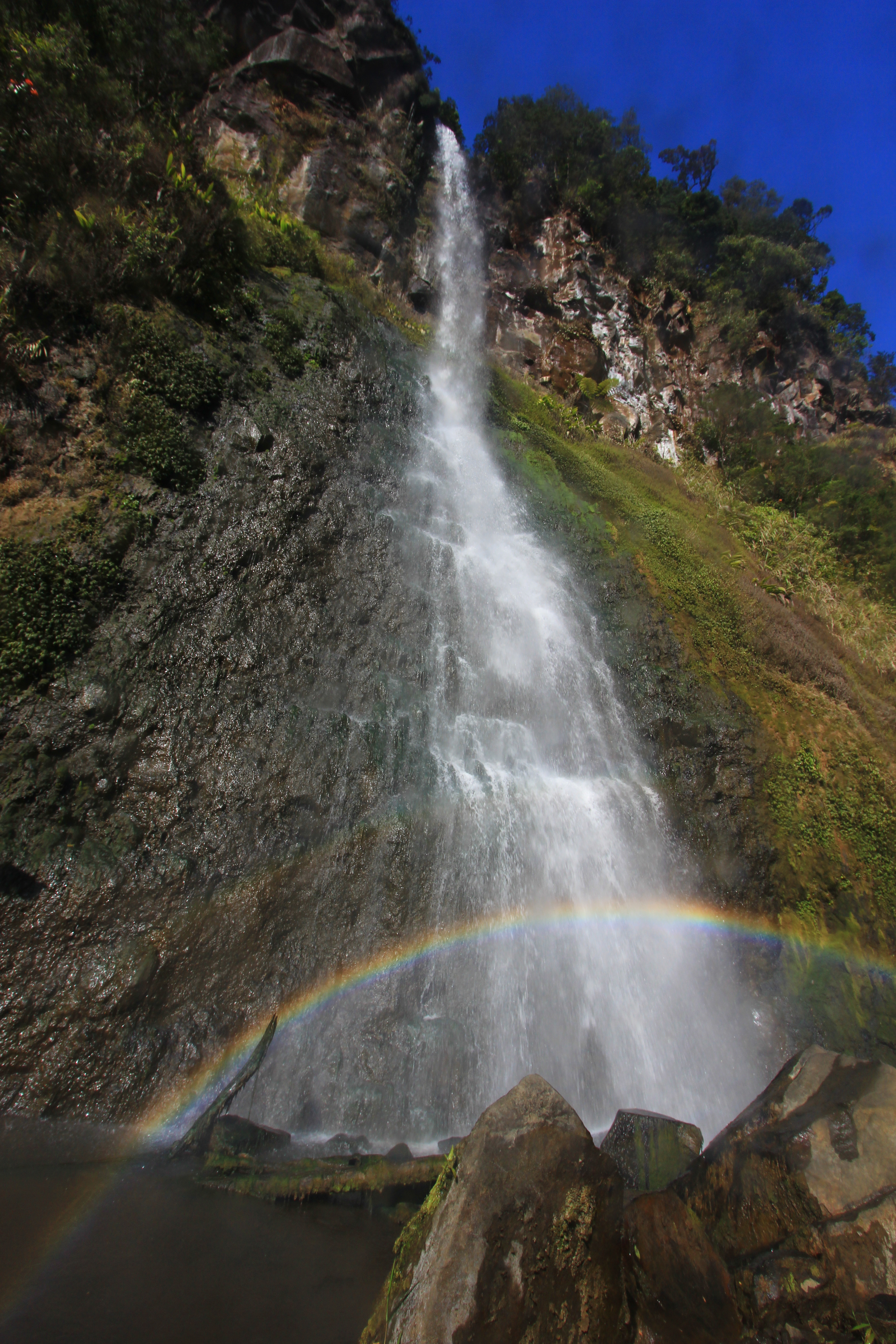 Curug Cibeureum. Waterfall with rainbow near Cibodas. This is an image of the Biosphere Reserve or a Geopark: Cibodas